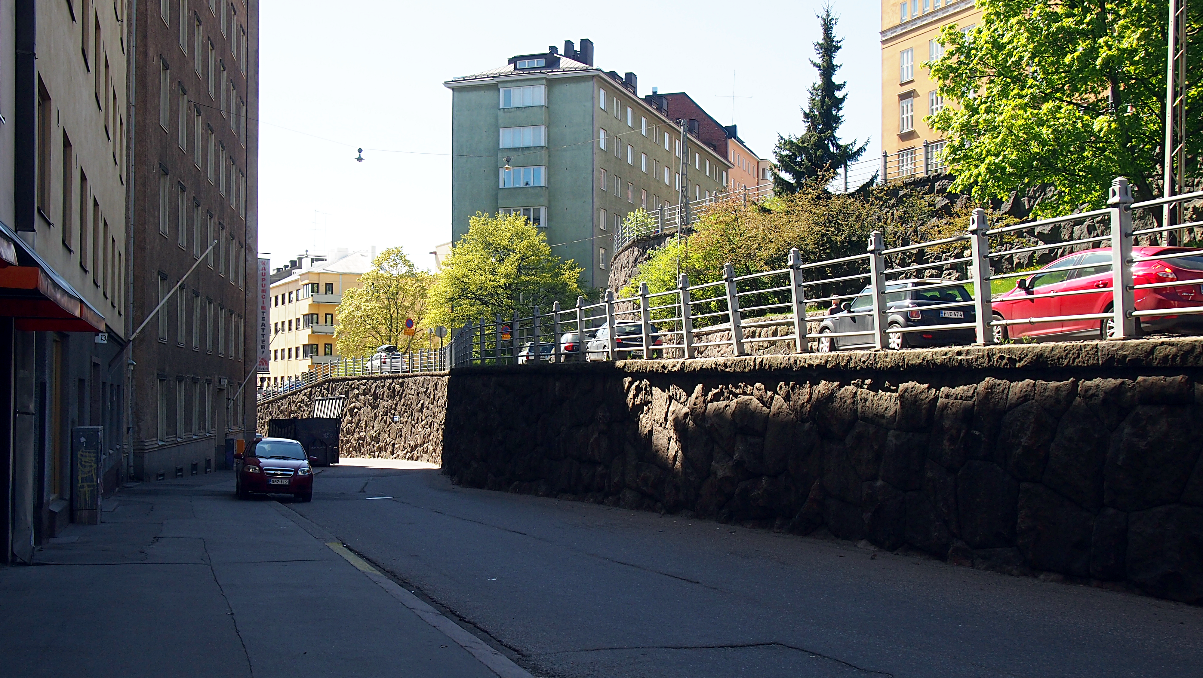 The street Pengerkatu in Kallio, Helsinki, Finland.